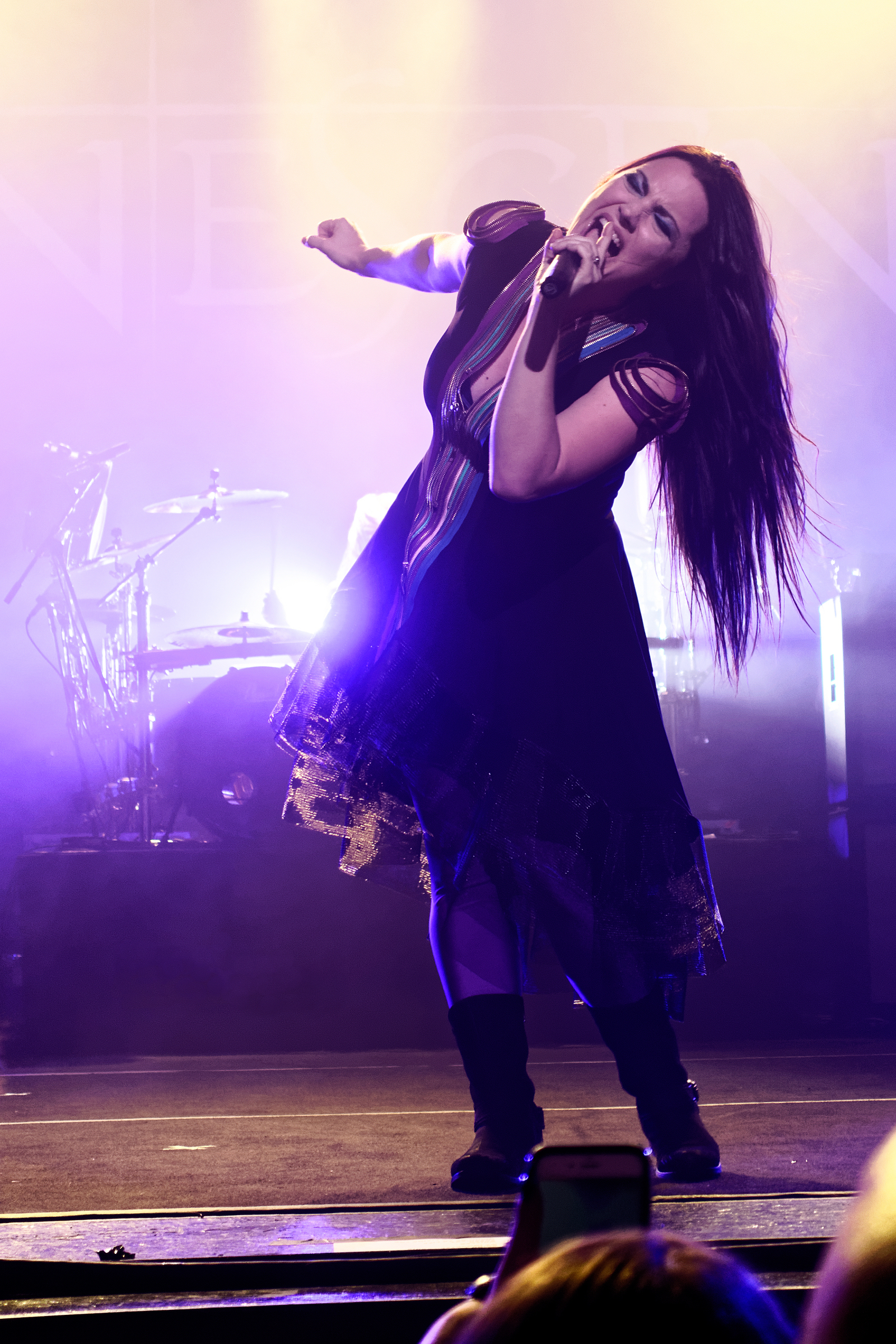 Evanescence performing live at The Wiltern theatre in Los Angeles, California on Tuesday November 17th, 2015.